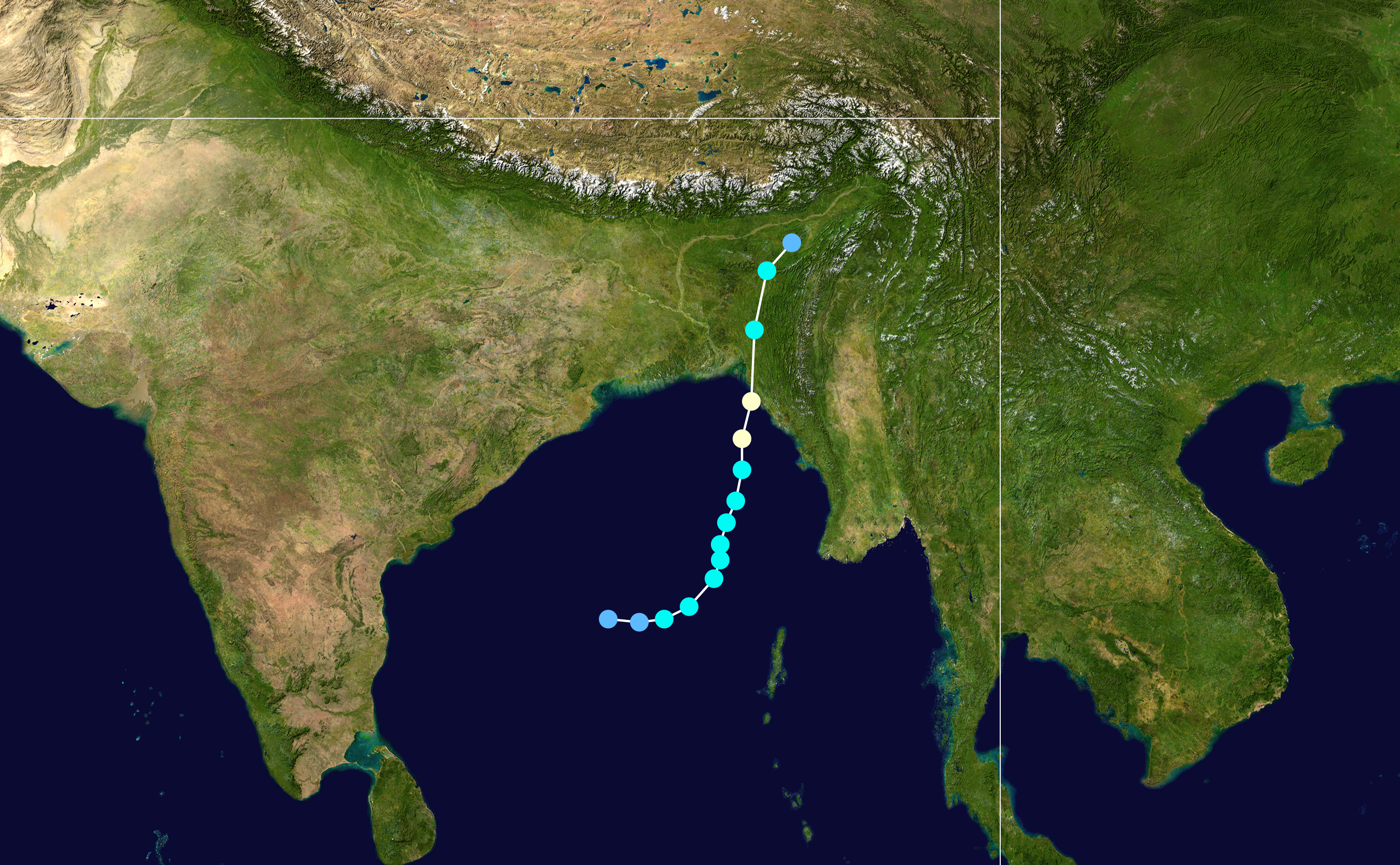 Track map of Severe Cyclonic Storm Mora of the 2017 North Indian Ocean cyclone season. The points show the location of the storm at 6-hour intervals. The colour represents the storm's maximum sustained wind speeds as classified in the Saffir–Simpson scale (see below), and the shape of the data points represent the nature of the storm, according to the legend below. Saffir–Simpson scale Tropical depression≤38 mph≤62 km/h Category 3111–129 mph178–208 km/h Tropical storm39–73 mph63–118 km/h Category 4130–156 mph209–251 km/h Category 174–95 mph119–153 km/h Category 5≥157 mph≥252 km/h Category 296–110 mph154–177 km/h Unknown Storm type Tropical cyclone Subtropical cyclone Extratropical cyclone / Remnant low / Tropical disturbance